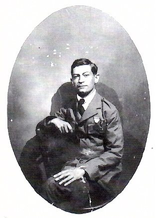 President of the Regional Federation of Boy Scouts in Valencia (1927).